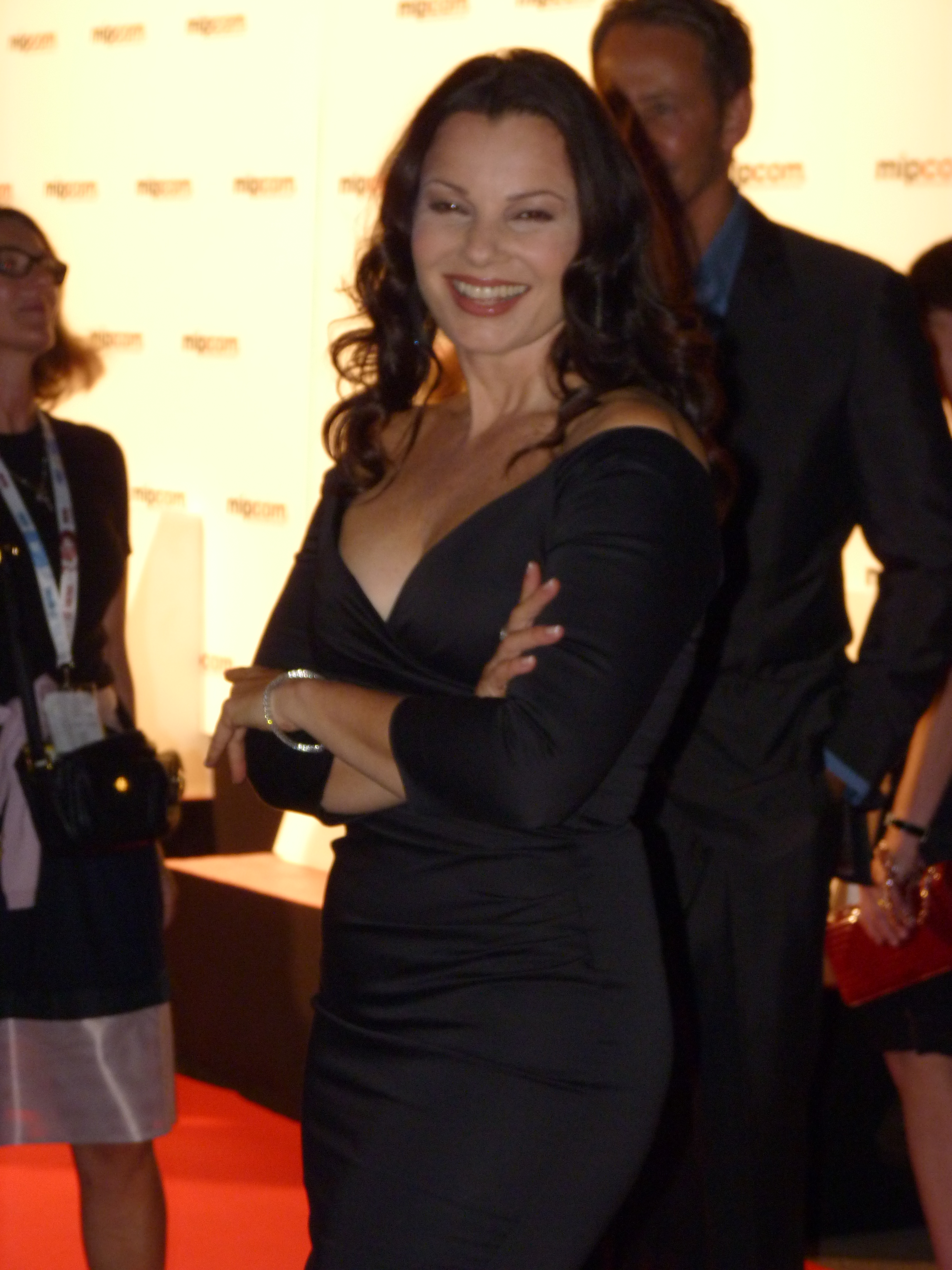 Fran Drescher at the 2011 MIPCOM, in Cannes.